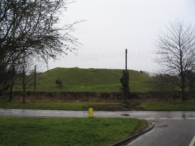 Motte, Castle Bytham.